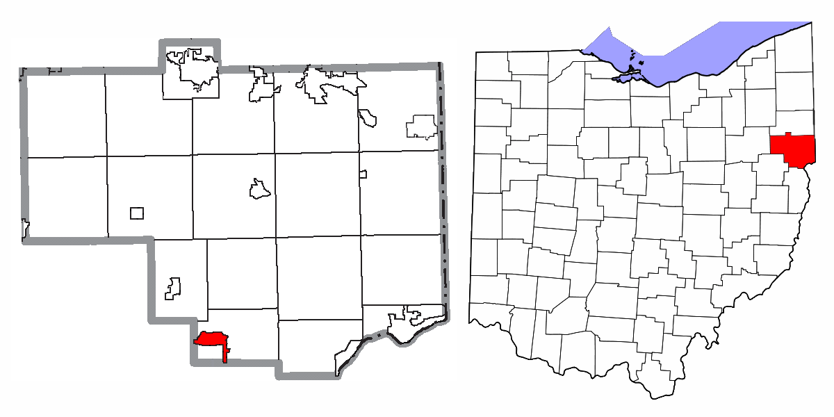 Map highlighting Village of Salineville, Columbiana County, Ohio.